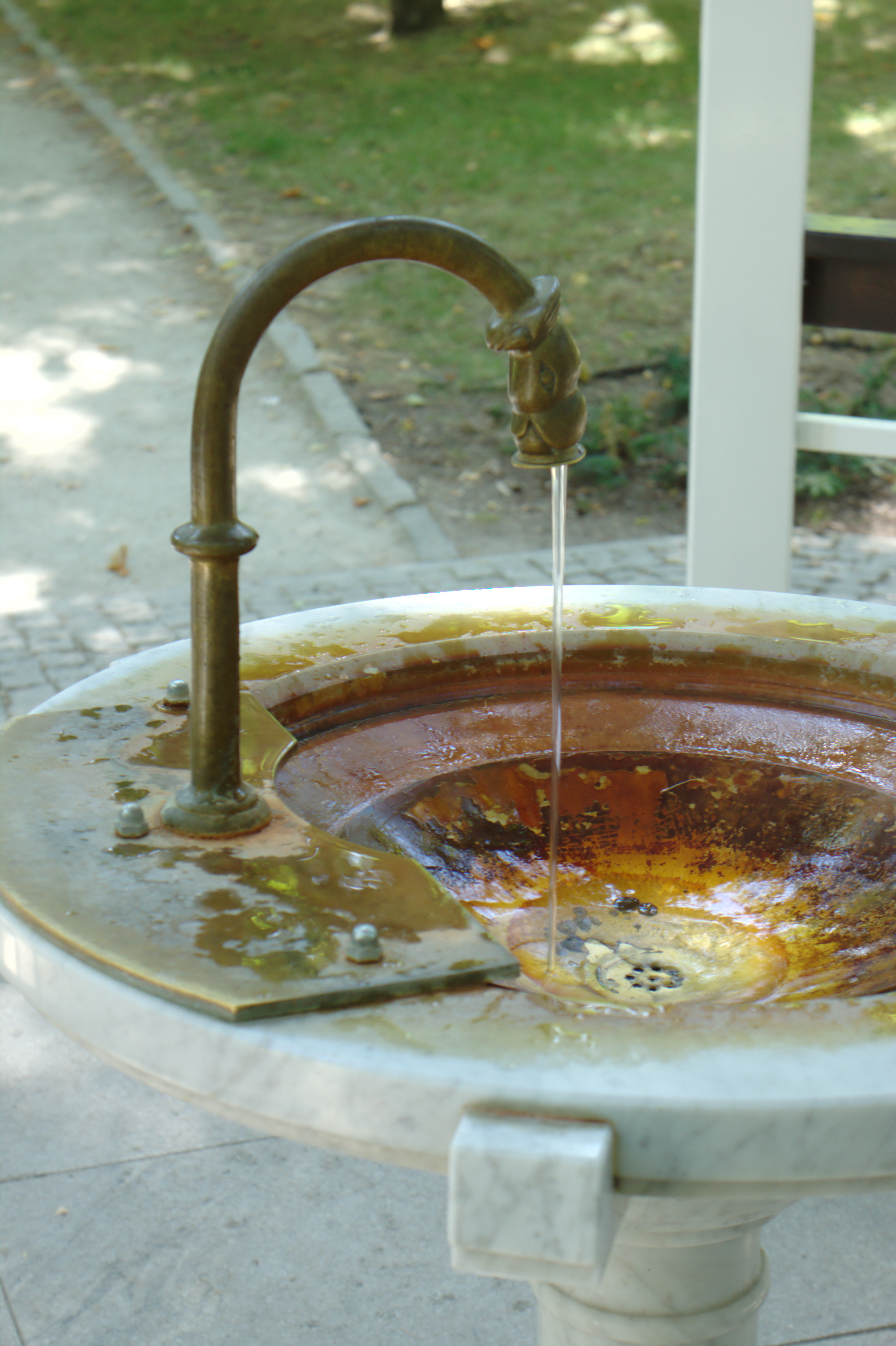 A spring in the spa collonade, Polanica-Zdrój, Poland